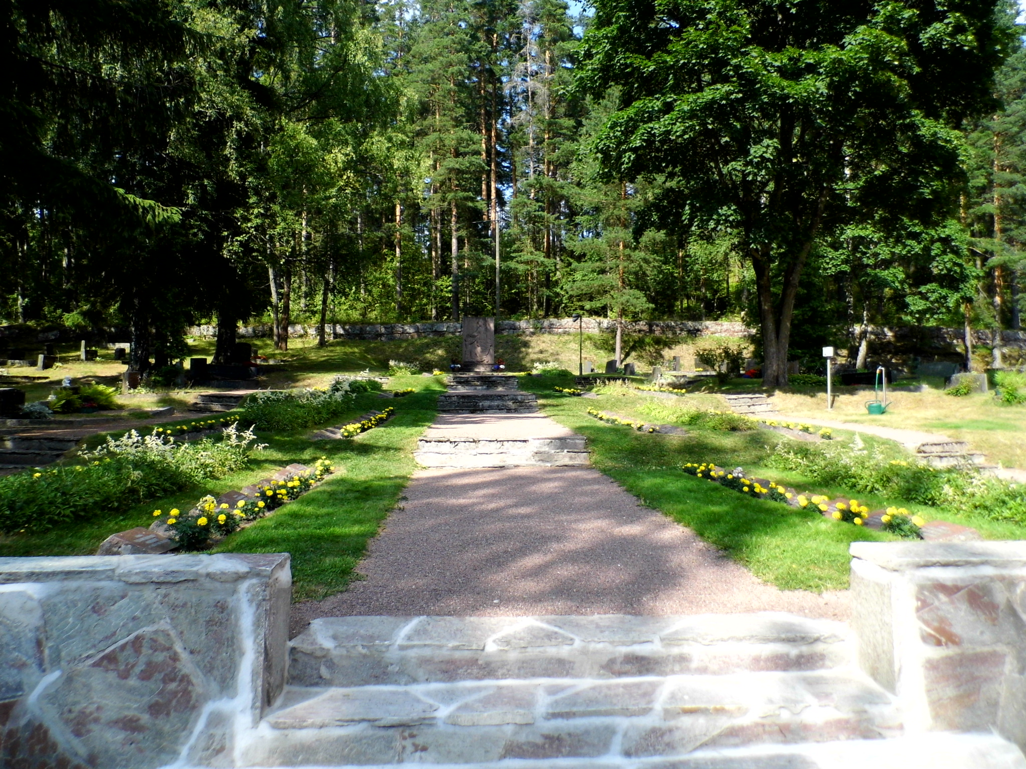 Military cemetary at church in Jaala, Finland